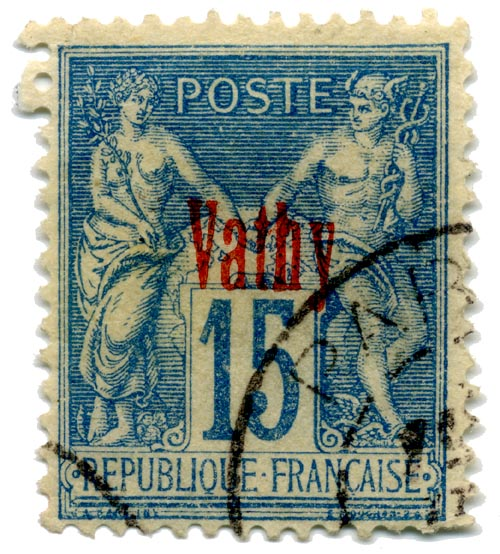 Scan of French post offices in the Turkish Empire (Vathy, Samos) 15c stamp of 1894